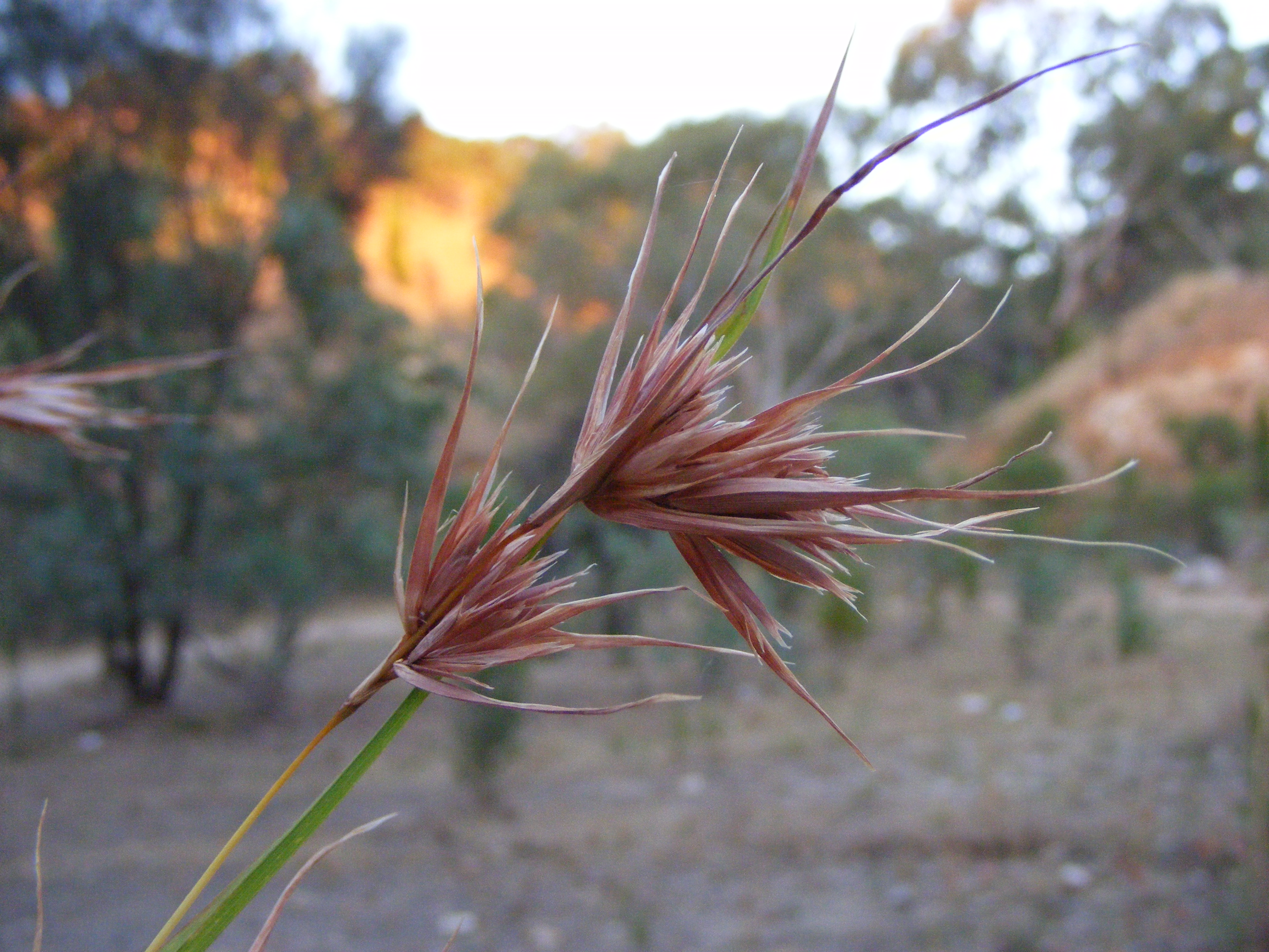 Kangaroo grass or red grass or rooigras. A common native grass of Adelaide, photographed at Kopper's quarry, Anstey Hill recreation park, South Australia.